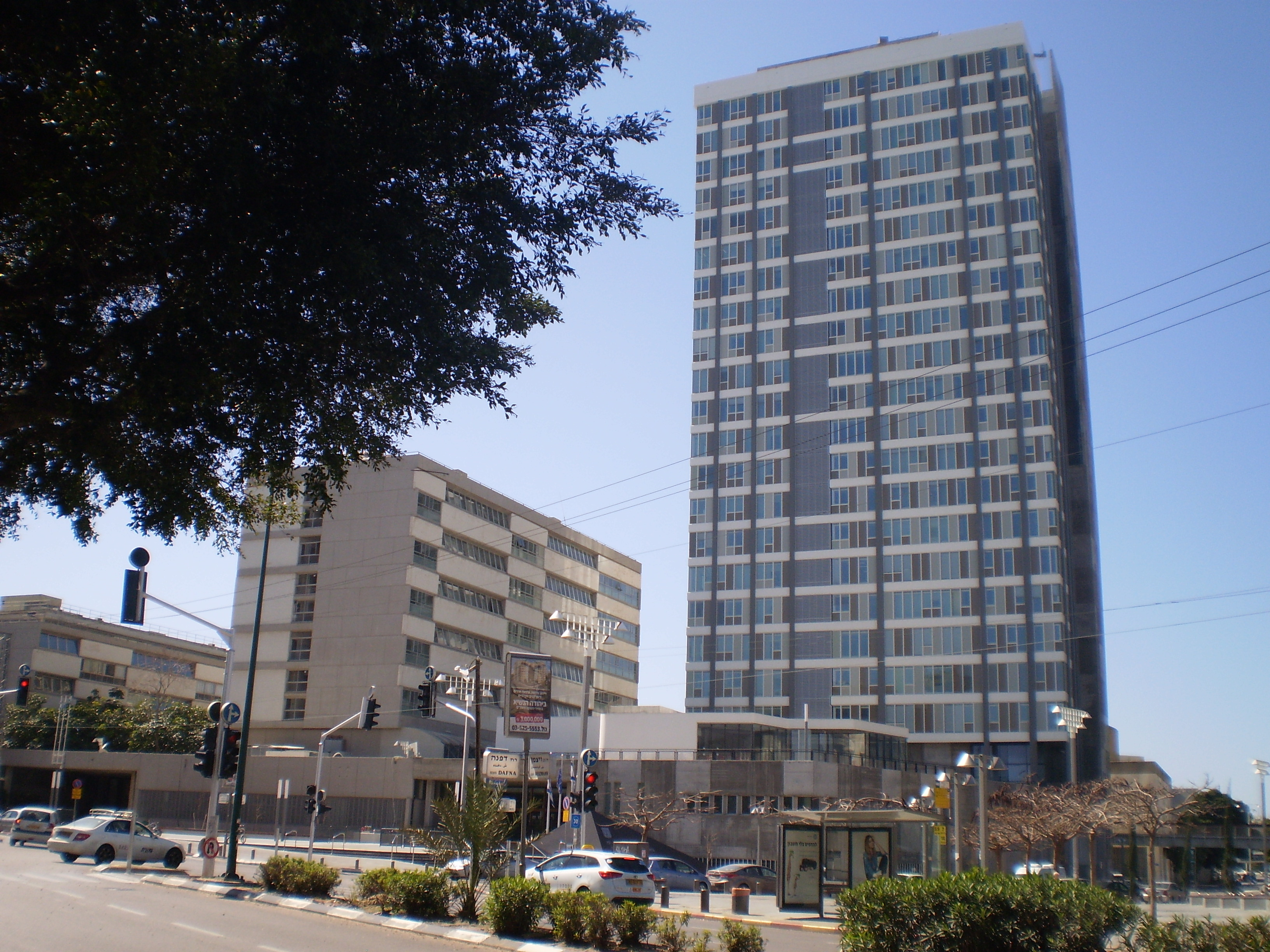 Tel_Aviv_new_Court_House